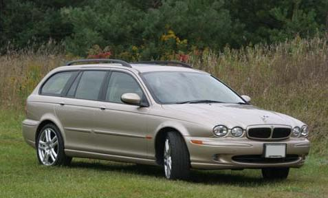 2004 Jaguar X-Type Estate Wagon Photographed in the United States.